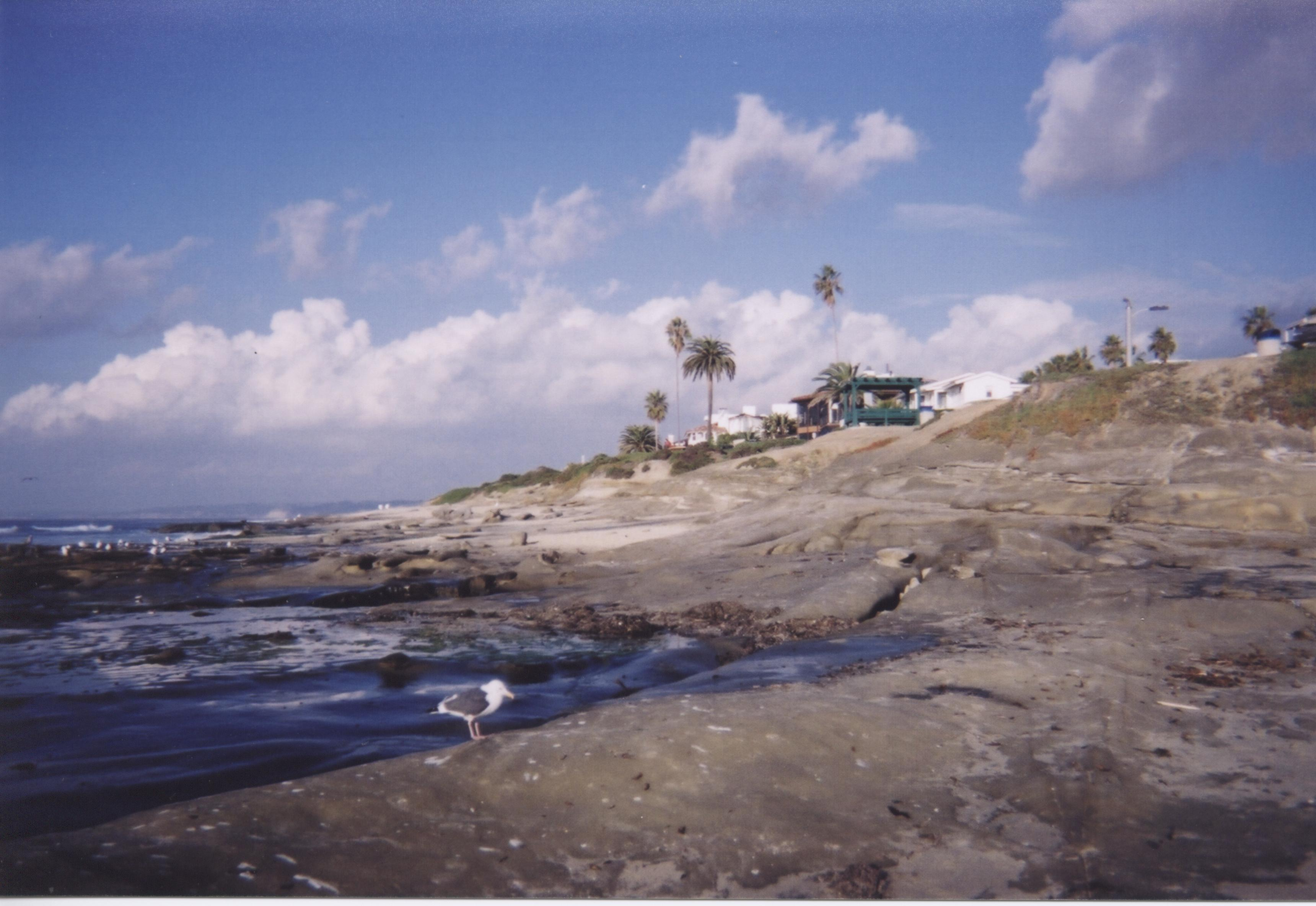 La Jolla Photo: G Larson